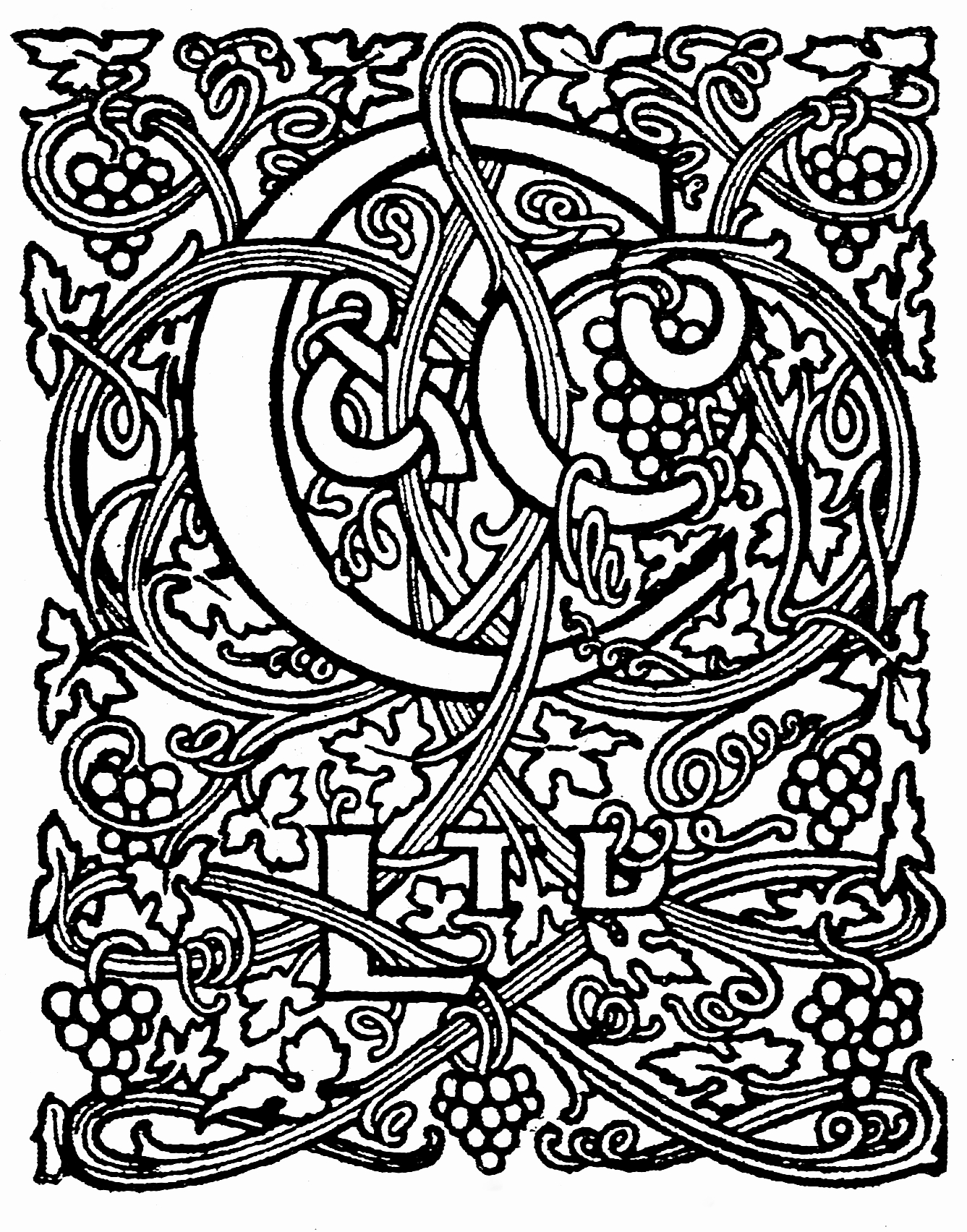 Constable & Co logo as in 1911 - scan (R. de Salis) of Constable & Co, publishers, their logo from a VCH, Hampshire, 1911.